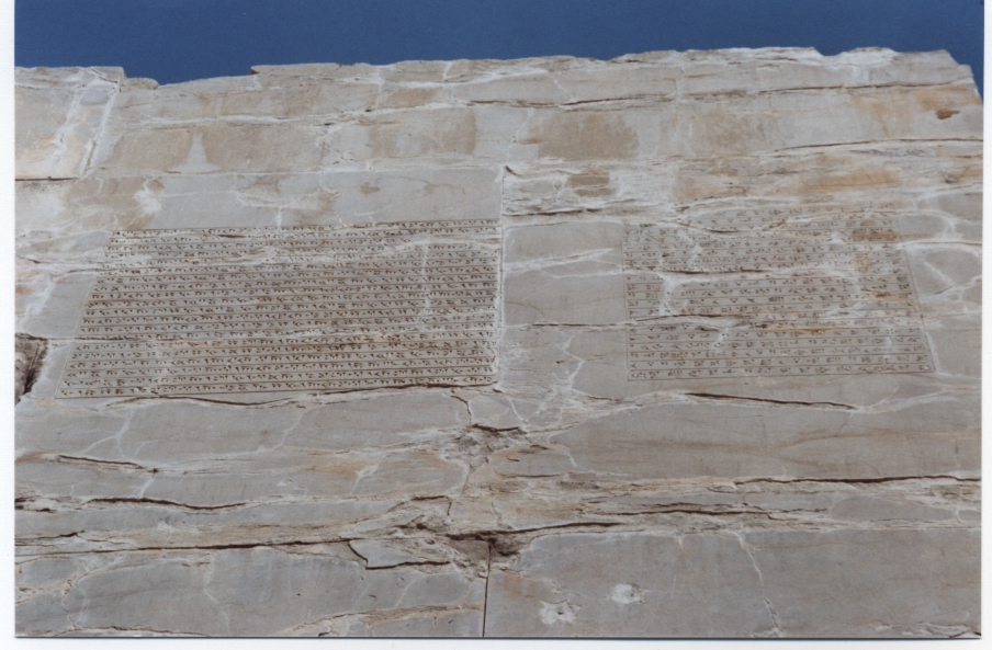 Xerxès Royal Inscription at the Gate of all Nations, Persepolis, Iran. April 2006. Picture taken by Pentocelo